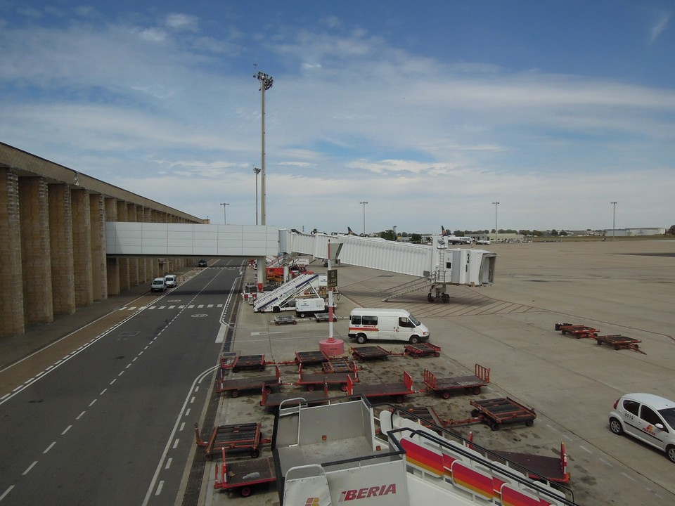 Finger SVQ